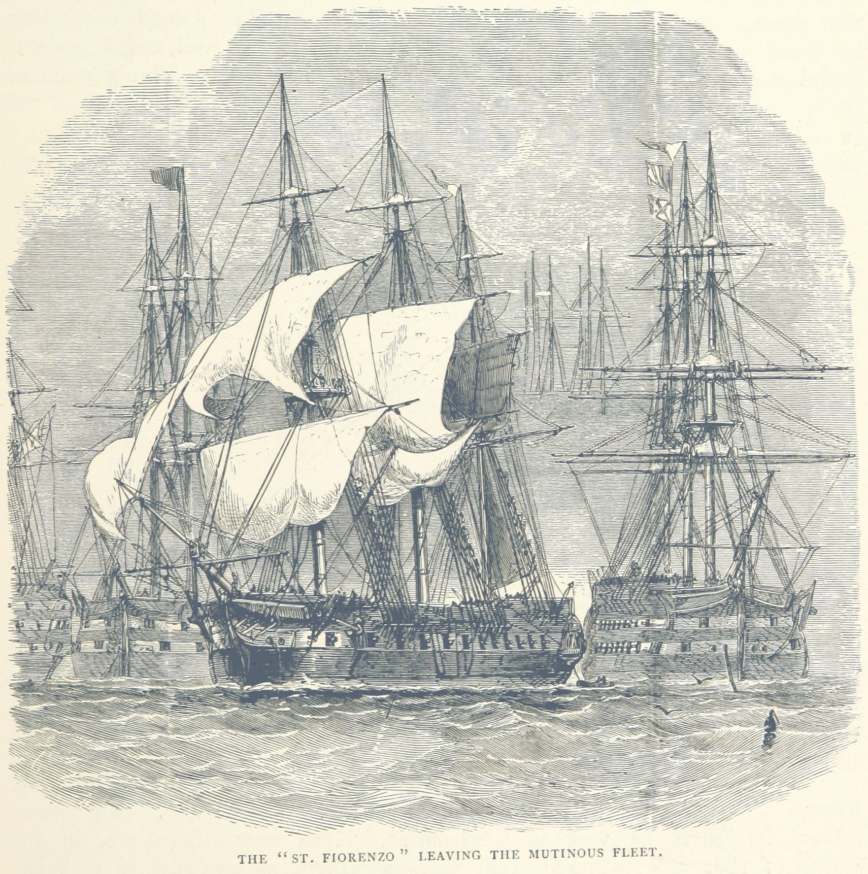 HMS St Fiorenzo sails away from the Nore mutiny.